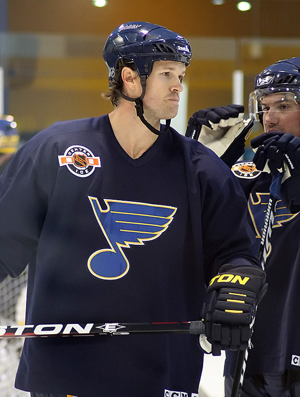 Jason Arnott St.Louis Blues player 2011